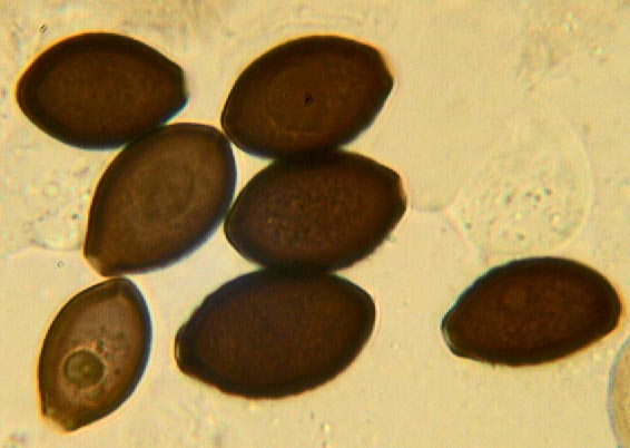 Found on 4/26/08 in Georgia by weiliiiiiii, Identified by Workman.